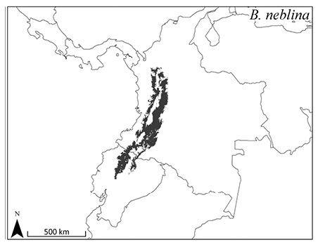 Distribution of Bassaricyon neblina "Olinguito", Ecuador, Colombia